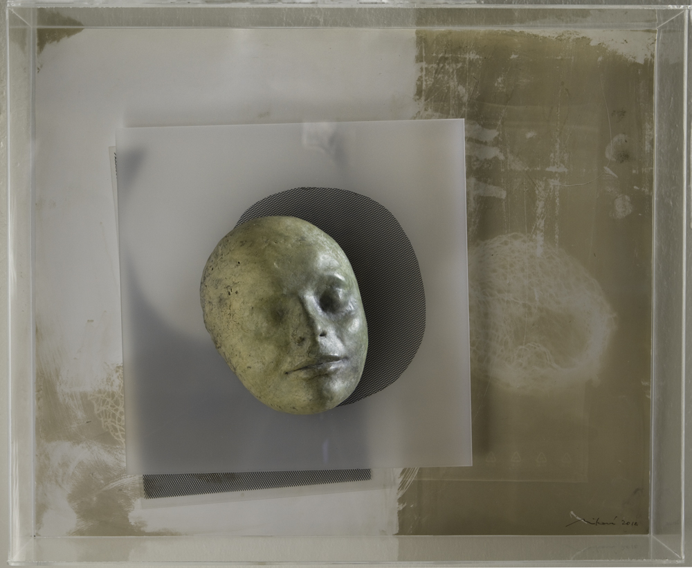 Jindra Viková, Self-portrait, 2012, assemblage 50 x 60 cm